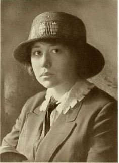 Notable women of St. Louis, 1914; by Johnson, Anne (André) "Mrs. Charles P. Johnson", 1871- Publication date 1914 Topics Women Publisher [St. Louis, Woodward Collection library_of_congress; americana Digitizing sponsor Sloan Foundation Contributor The Library of Congress Language English Call number 273387 Camera Canon 5D Identifier notablewomenofst00john Identifier-ark ark:/13960/t0tq66z8n Identifier-bib 00145723176 Ocr ABBYY FineReader 8.0 Openlibrary_edition OL6566619M Openlibrary_work OL7734088W Pages 522 Possible copyright status NOT_IN_COPYRIGHT Ppi 300 Scandate 20090203222701 Scanfactors 4 Scanner Scanningcenter capitolhill Full catalog record MARCXML